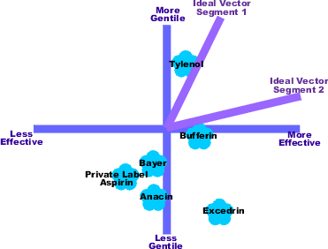 perceptual with ideal vectors - aspirin